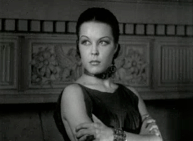 Cropped screenshot of Joan Woodbury from the film The Rogue's Tavern.